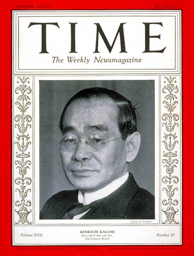 Time magazine cover, Vol. XVII No. 20, May 18, 1931 The cover shows Kenkichi Kagami (各務鎌吉) (1869–1939).